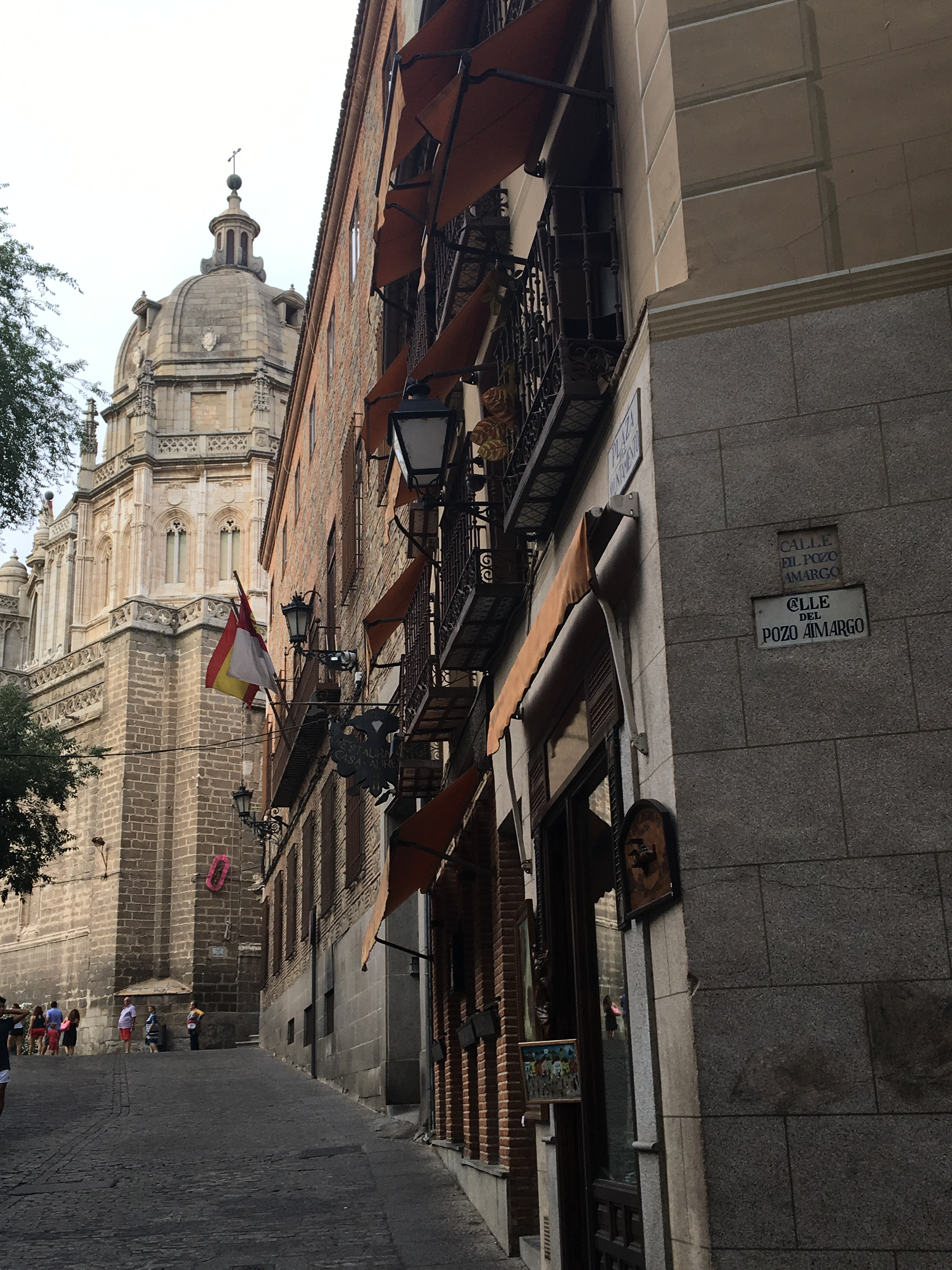 The square of the Bitter Well, the legendary well of Toledo.